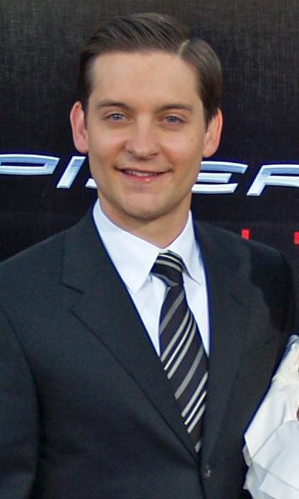 Tobey Maguire. (Cut away photo, from Image:Tobey Maguire and Jennifer Meyer by David Shankbone.jpg)